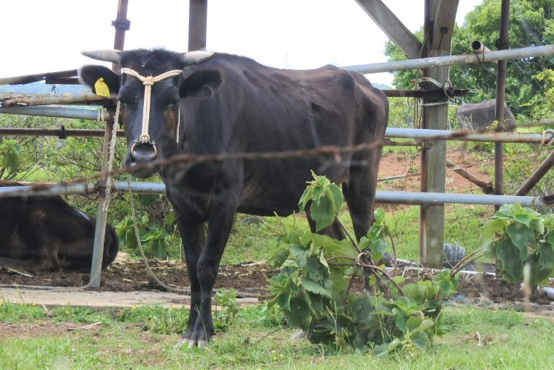 Mishima cattle in Mi-shima Island, Yamaguchi prefecture. One of two Japanese original cattle breeds that are never cross-bred with Western cattles.